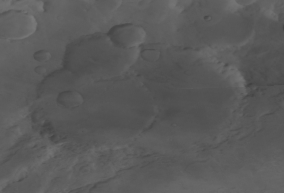 Tycho Brahe Crater, Mars. Photography taken by Mars Orbiter Camera on Mars Global Surveyor.